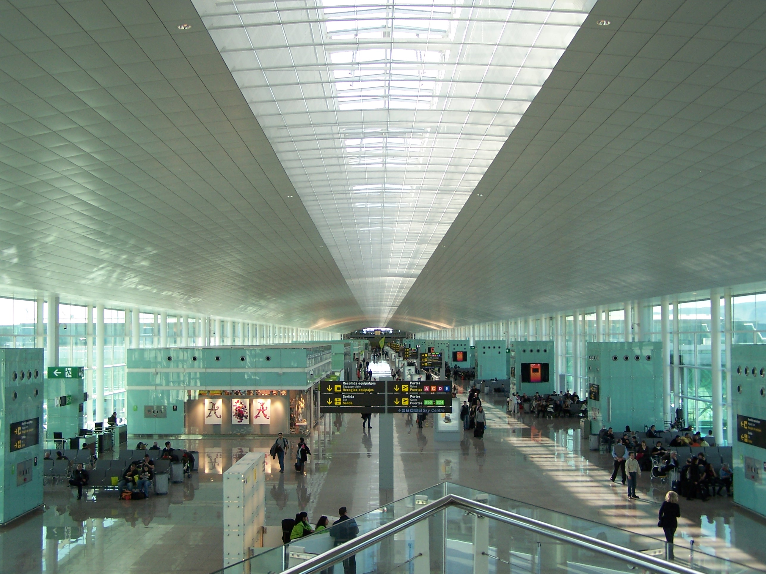 Airport, Barcelona, Spain